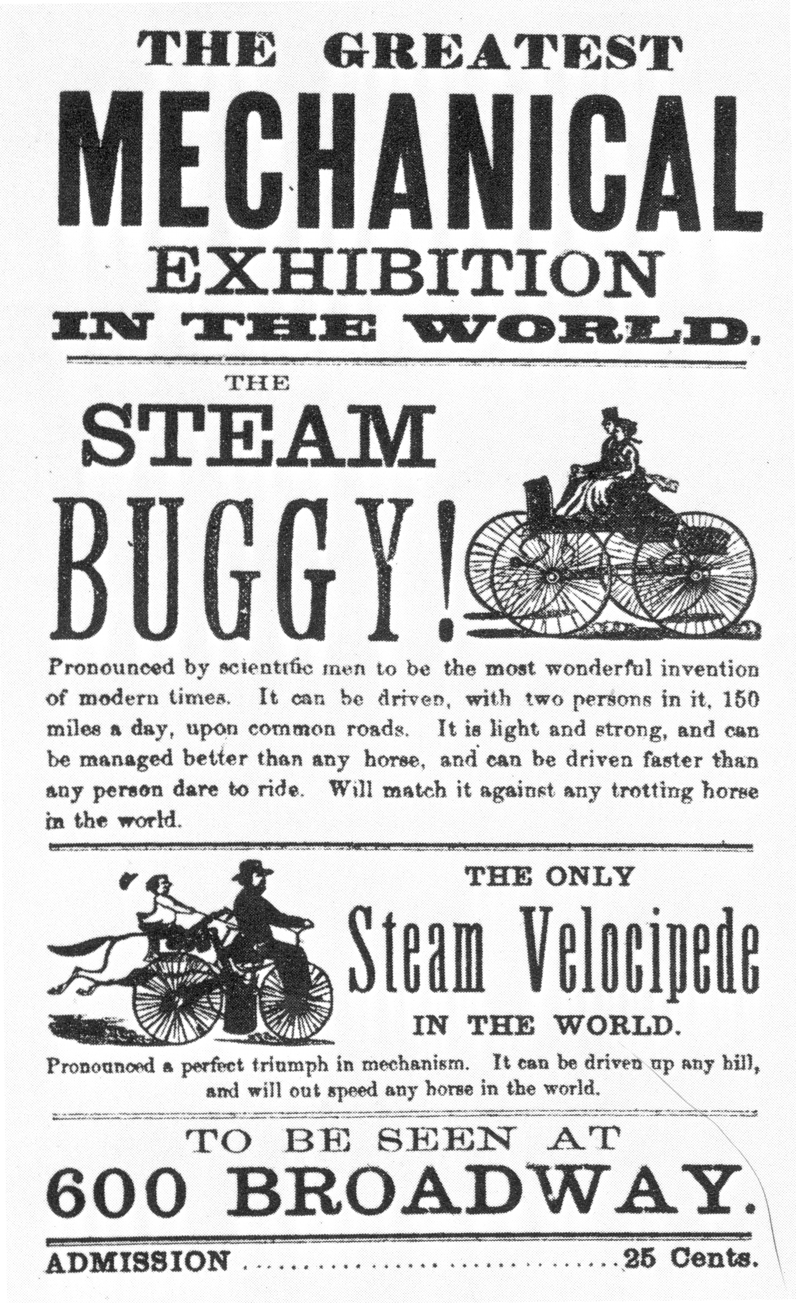 Sylvester H. Roper handbill advertising "The Greatest Mechanical Exhibition in the World". Circa 1870. From The Smithsonian Collection of Automobiles and Motorcycles, page 13. Smithsonian Institution Press. 1968. LOC 68-9579